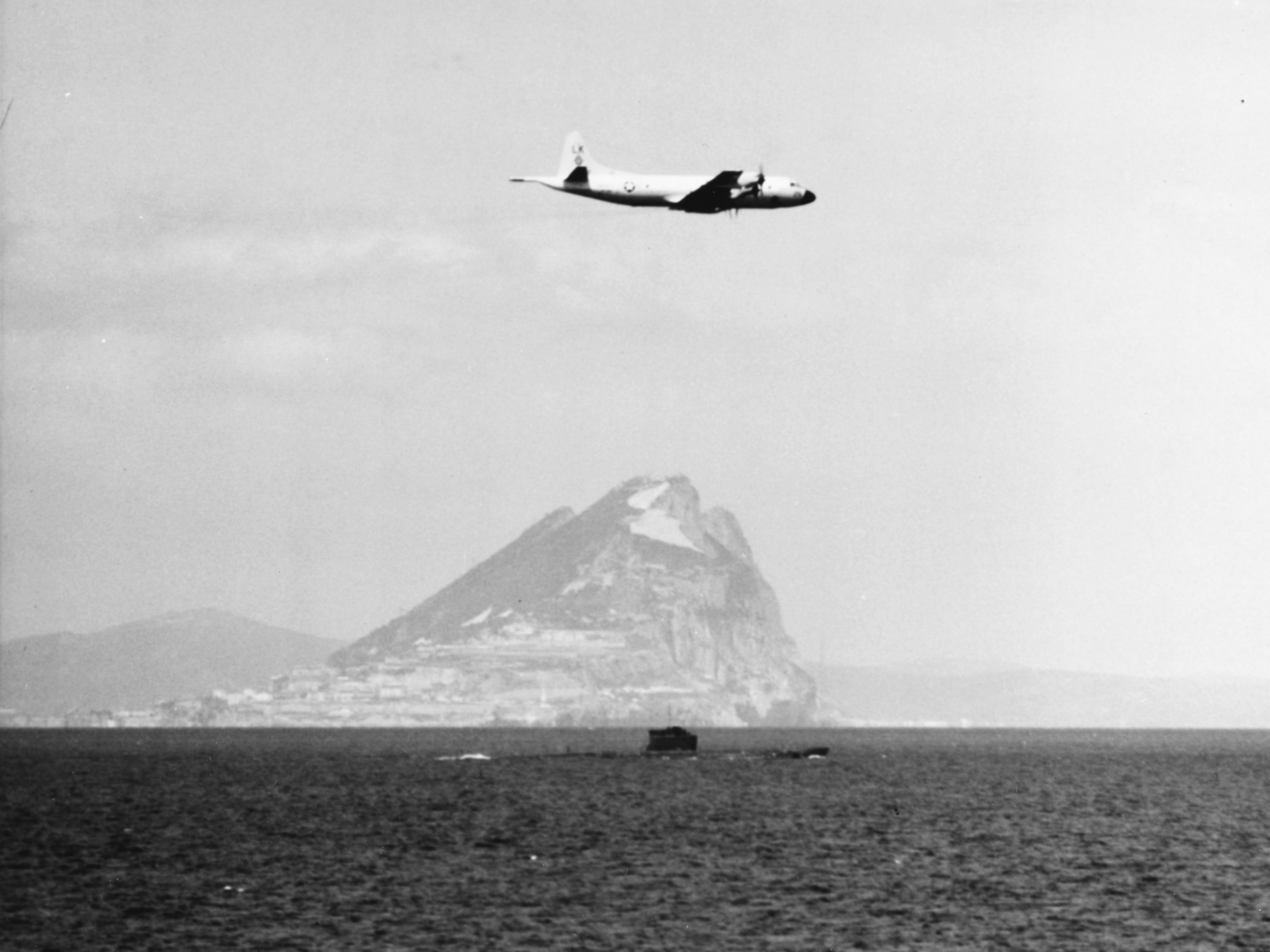 A U.S. Navy Lockheed P-3B Orion from Patrol Squadron 26 (VP-26) "Tridents" flies over a Soviet Project 611-class (NATO reporting name: Zulu-class) submarine in the Strait of Gibraltar, April 1969.